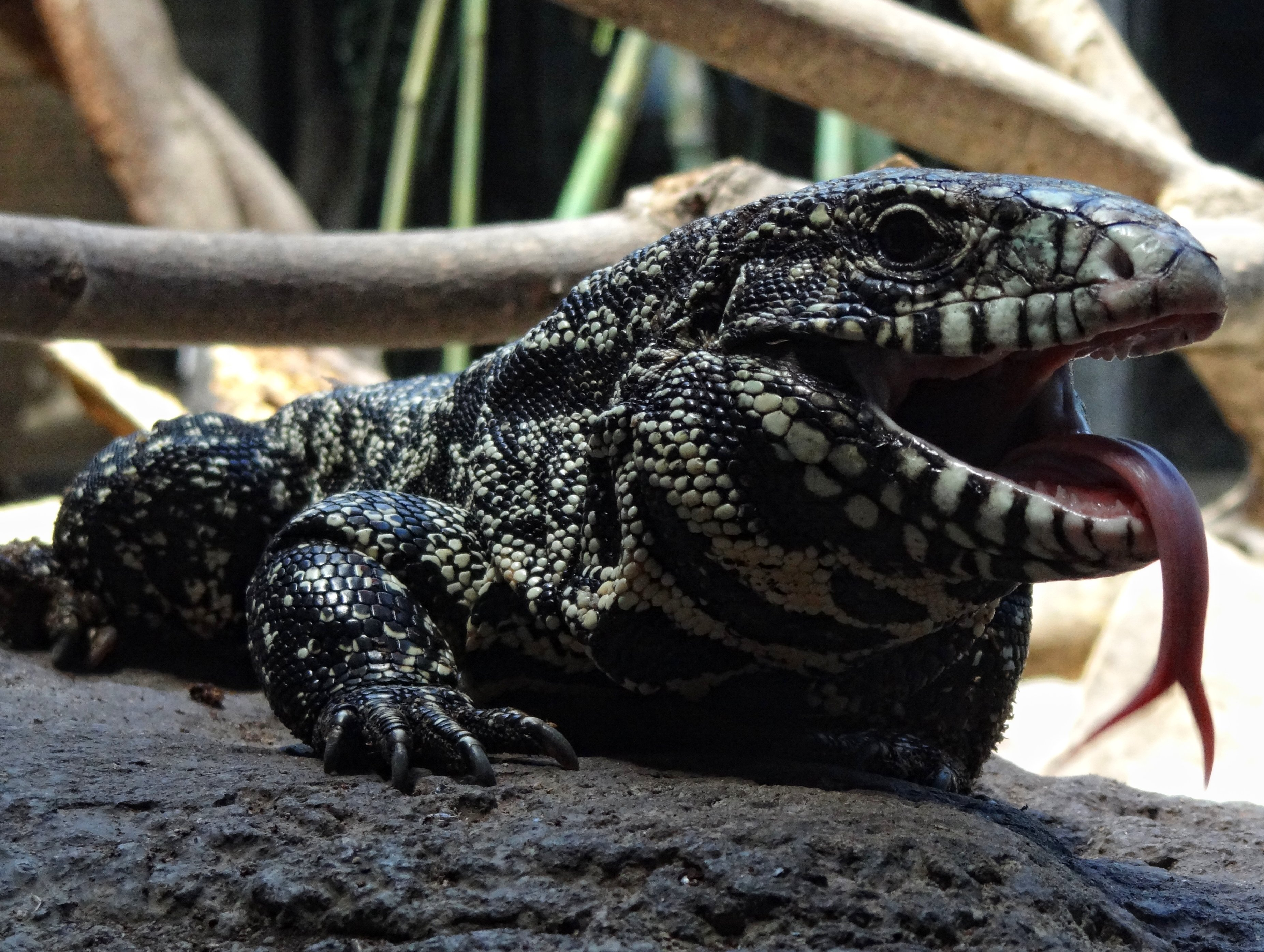 An Argentine Black and White Tegu smelling the air with its tongue, photographed in the Buenos Aires Zoo in November 2013.